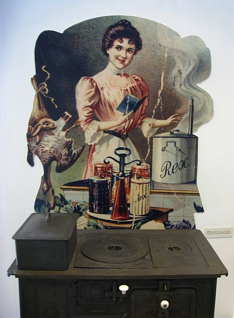 A typical exhibition sample of the former German Cookbook Museum in Dortmund: An old-fashioned hearth in front of a typical victorian kitchen-picture.